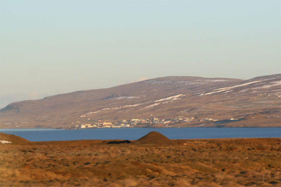 North across Miðfjörður to Hvammstangi, November 21 11:55 Iceland, November 2007 Photo by me user debivort (or friend, with permission given to upload and license freely).